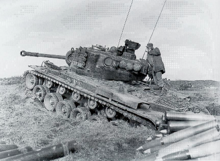 M46 Patton of Marine 1st Tank Battalion, waiting in prepared position for fire instructions